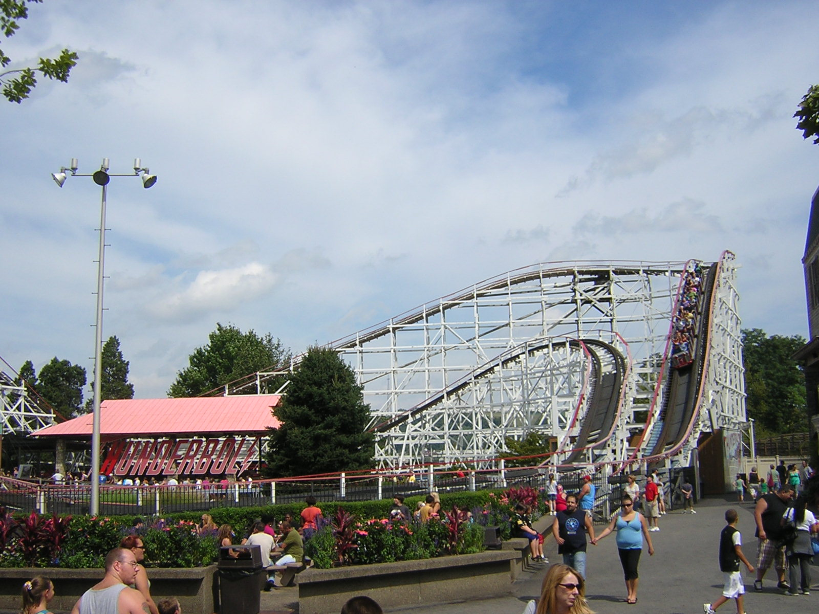 A scene from Kennywood, an amusement park located in West Mifflin, Pennsylvania on the Monongahela River. This is a view of the historic Thunderbolt ride. This Roller coaster ride dates to 1924. It started out as the Pippin but was reprofiled and expanded in 1967. It still uses 1958 vintage Century Flyer trains. In this view a train is descending the initial drop after the first lift hill.